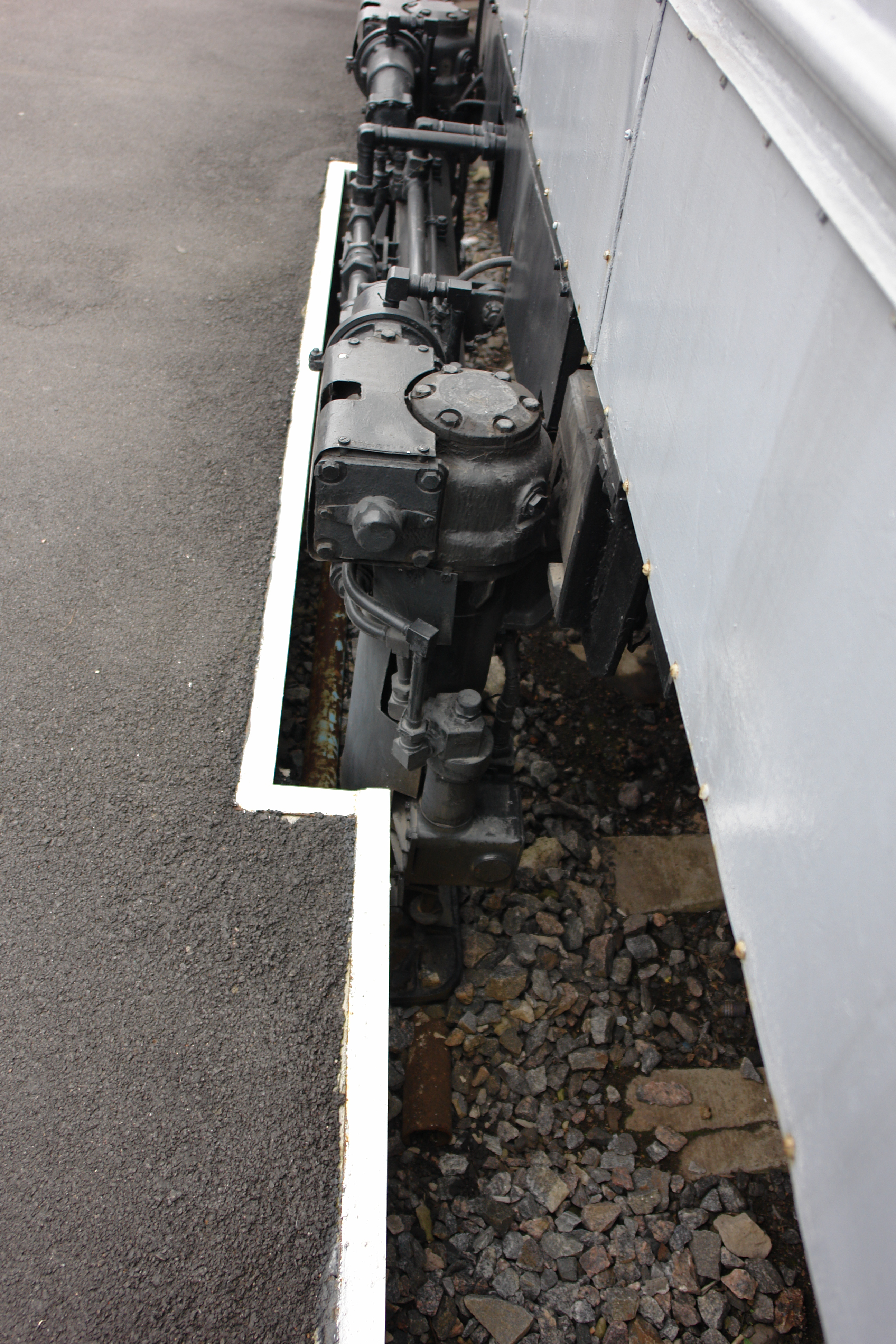 Military railway missile complex 15P961 "Molodets" with intercontinental missile 15ZH61 (RT-23 UTTH, SS-24 SCALPEL) Launching car Built by the Kalinin works in 1986 Length23,6 mWidth3,2 mHeight5,0 mWeight200 t The design is based on the 8-axles freight car (loac 135 t). The roof is opened by the hydraulic gear. Thi missile carries ten nuclear warheads each with a yielc of 0.A3 Mt. Warheads are equipped with an arrangemeni for overcoming of antiballistic missile system Power supply car Built by the Kalinin works in 1986 Length23,6 mWidth3,2mHeight5,0 m Contains four diesel generators each with a power of 100 kW for independent operation of launching unit. Provided with an arrangement able to short-circuit and push aside the overhead contact wire. Длина23,6 мШирина3,2 мВысота5,0м Оборудован четырьмя дизель-генераторами мощностью 100 кВт для обеспечения автономной работы пускового модуля а так же устройством для закорачивания и отвода контактной сети (ЗОКС).Date28 October 2007SourceOwn workAuthorGeorge ShuklinPermission (Reusing this file) Own work, share alike, attribution required (Creative Commons CC-BY-SA-2.5)